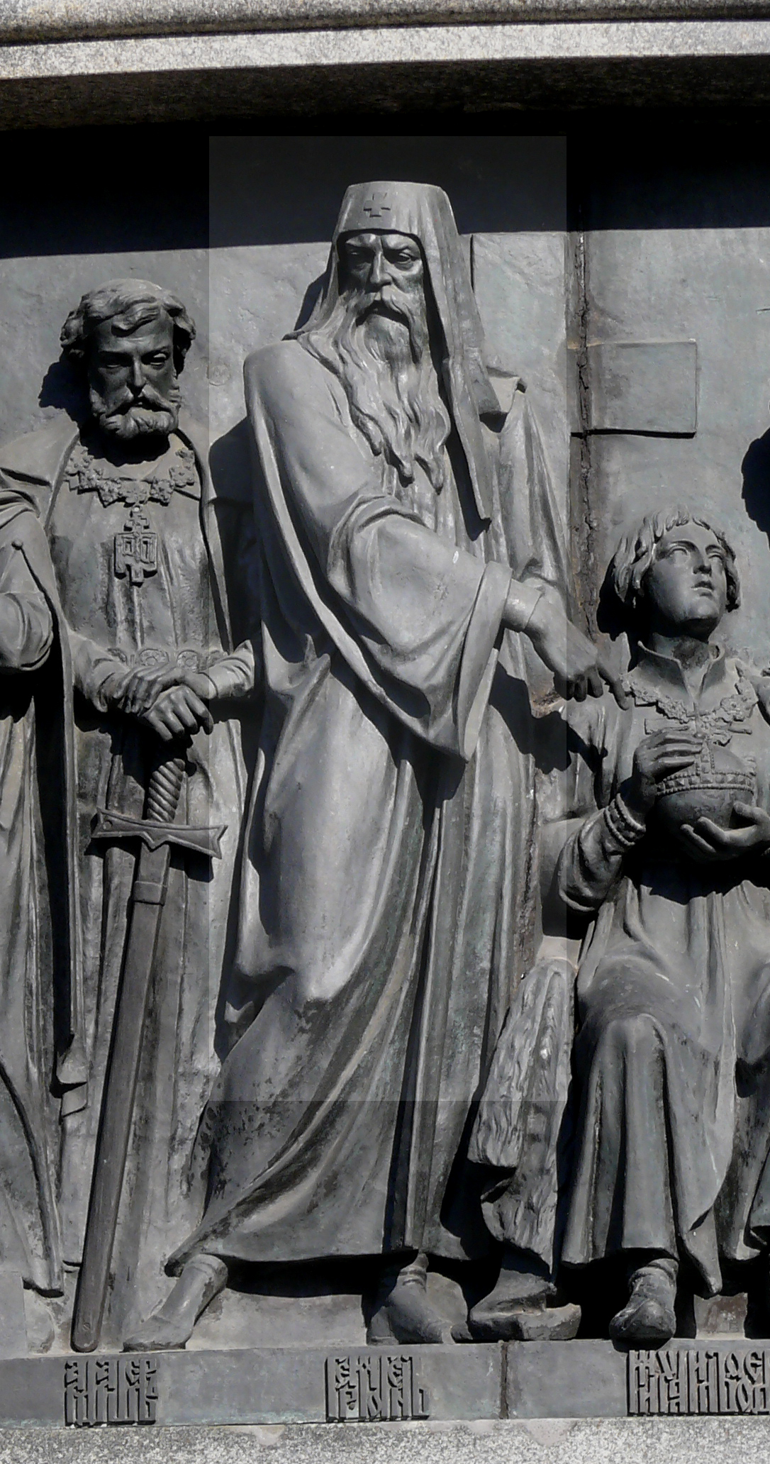 Patriarch Germogen on the Monument "Millennuim of Russia" in Veliky Novgorod